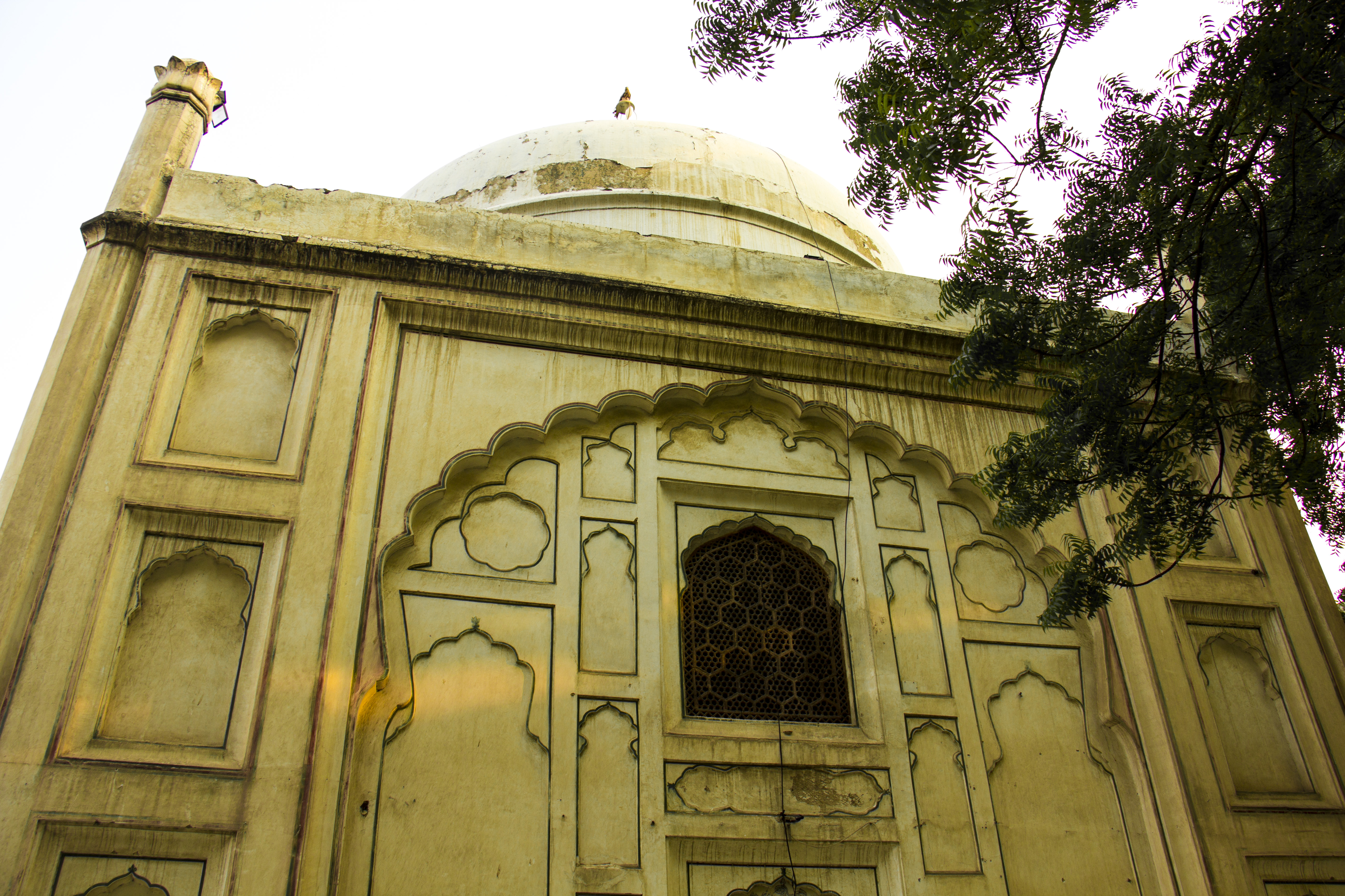 Shah Chiragh Chambers This is a photo of a monument in Pakistan identified as the PB-P-146